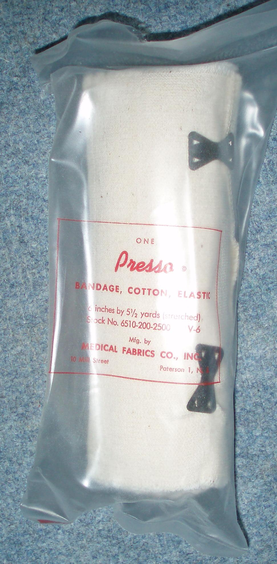 US elaslastic bandage, used in Vietnam War Era